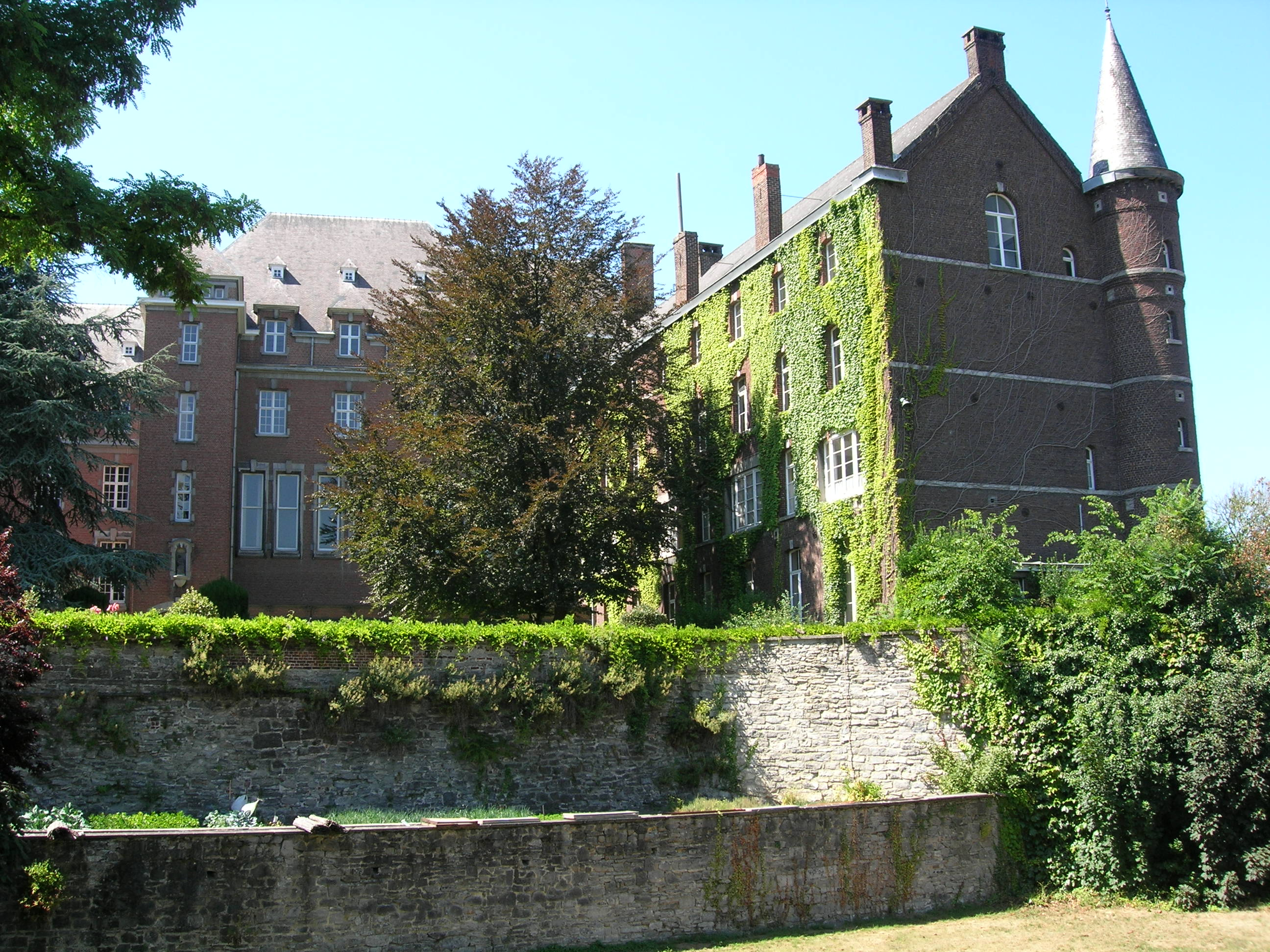 The seminar of Tournai seen from the garden